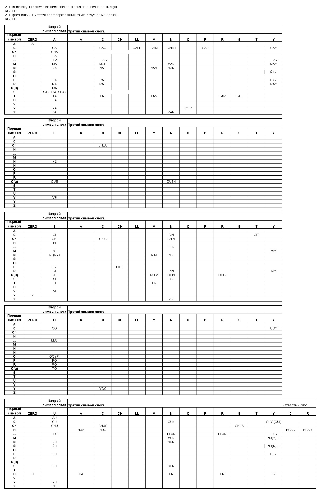 A. Skromnitsky. The sistem of formation of syllables inkas based on the quechua in the books “Exsul Immeritus Blas Valera Populo Suo” and "Historia et rudimenta linguae piruanorum"